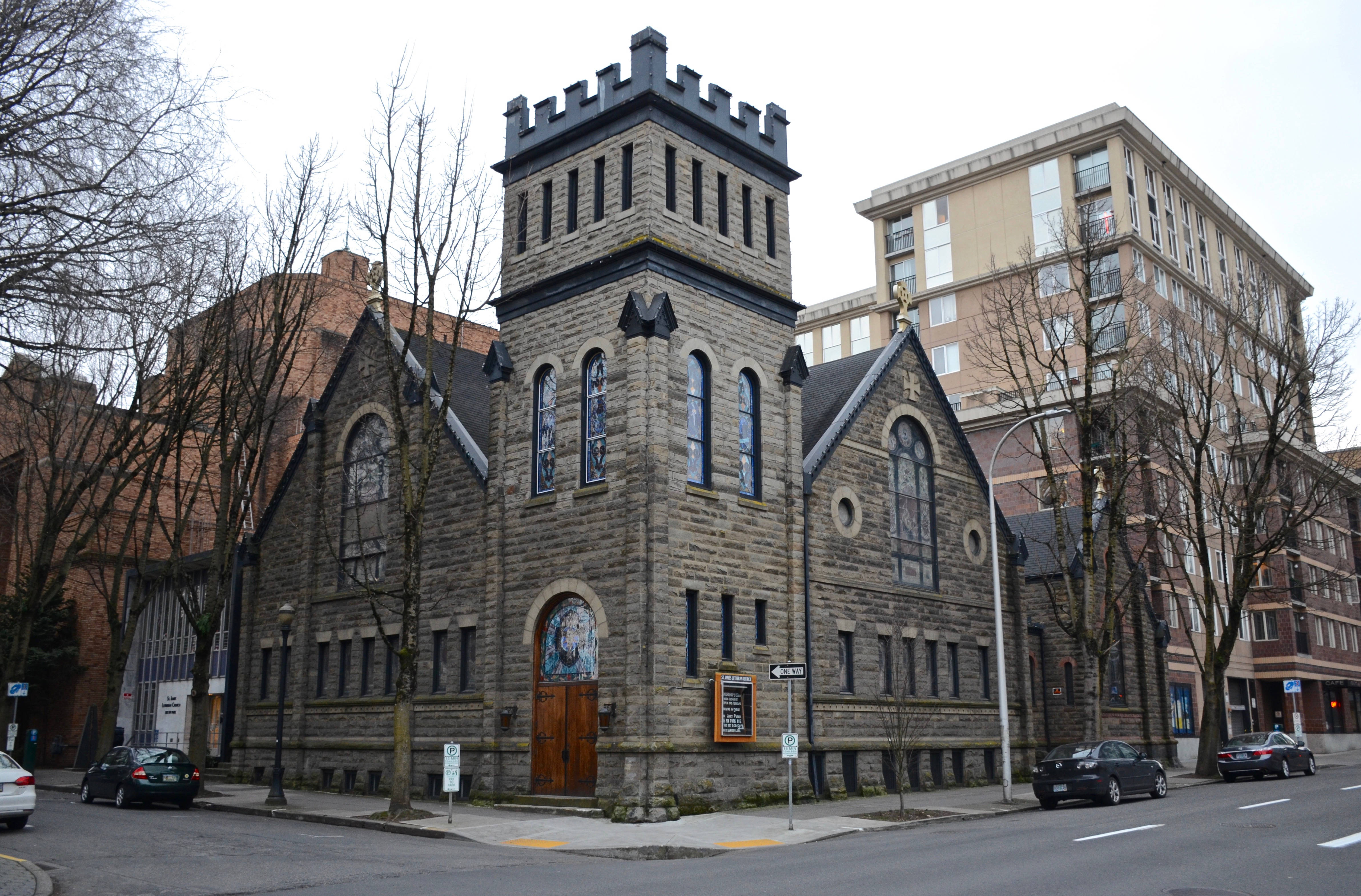 St. James Lutheran Church, in Portland, Oregon, is listed on the U.S. National Register of Historic Places. The main building was constructed in 1907–08.